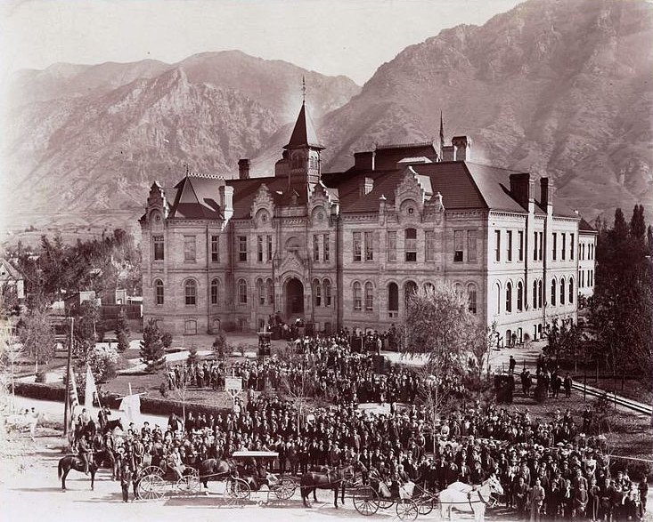 Photo of Brigham Young Academy, later to become Brigham Young university and Brigham Young High School.